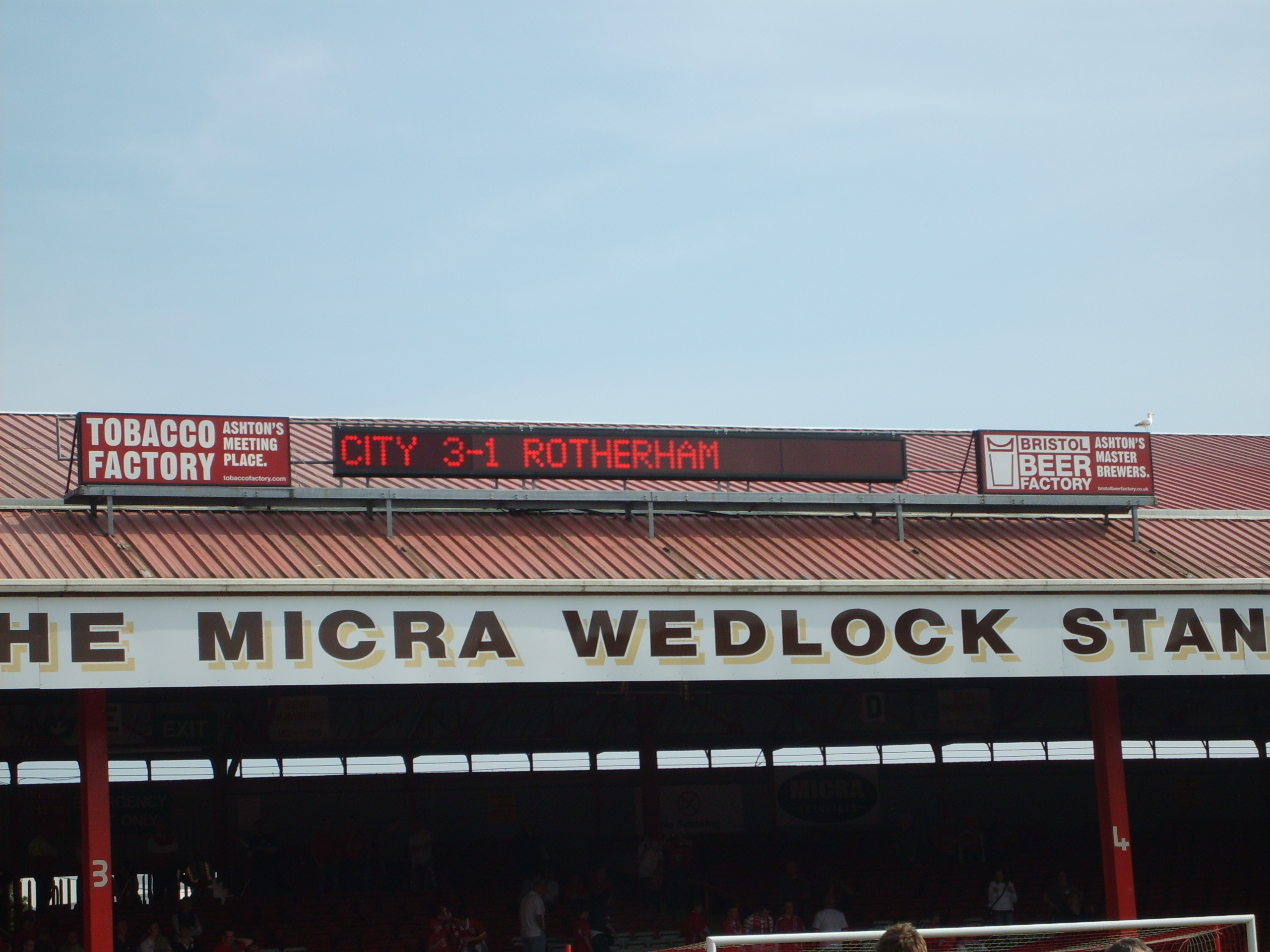 The scoreboard at Ashton Gate stadium after Bristol City's 3-1 win over Rotherham United